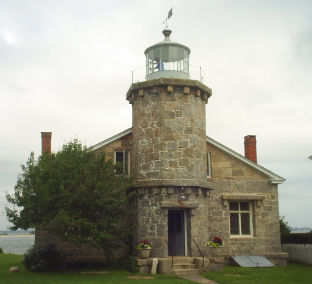 Photo taken by John Meola, July 20, 2006.